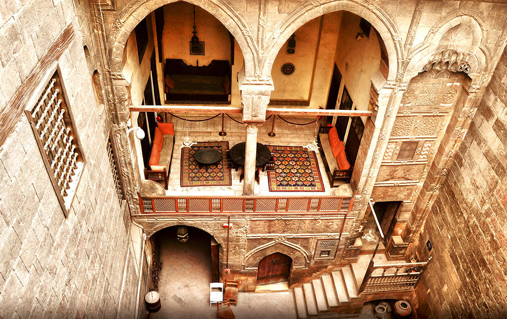 بيت الكريتلية الإسلامي في القاهرة